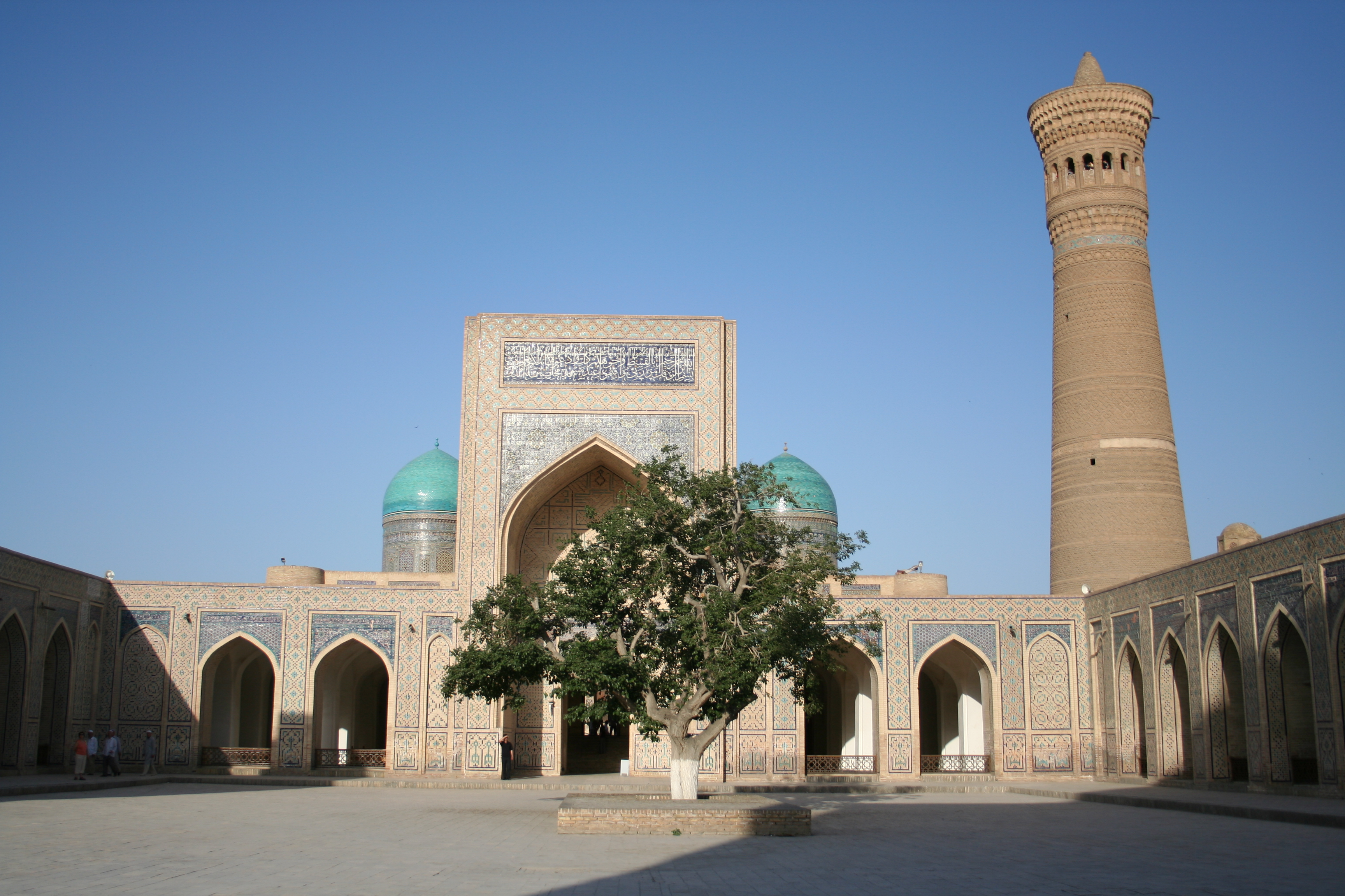 Bukhara, Kalyan Mosque and minaret